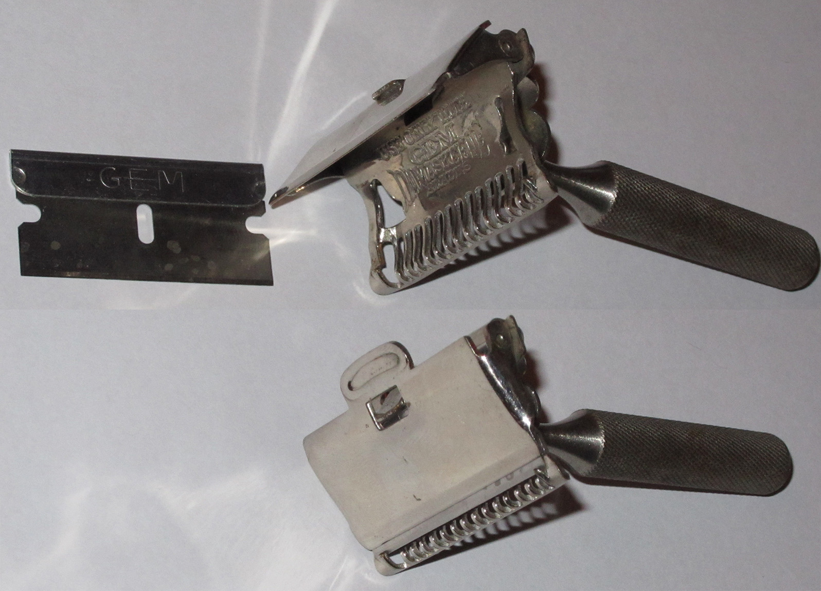 A GEM razor and a GEM blade. The razor is shown open and closed with the blade installed.